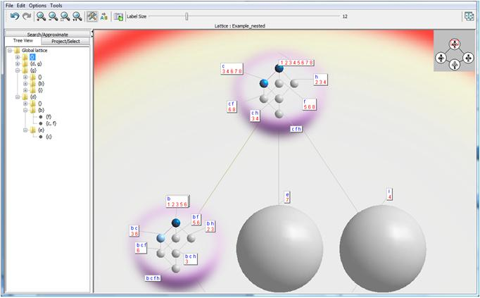 Nested line diagram in LatticeMiner tool